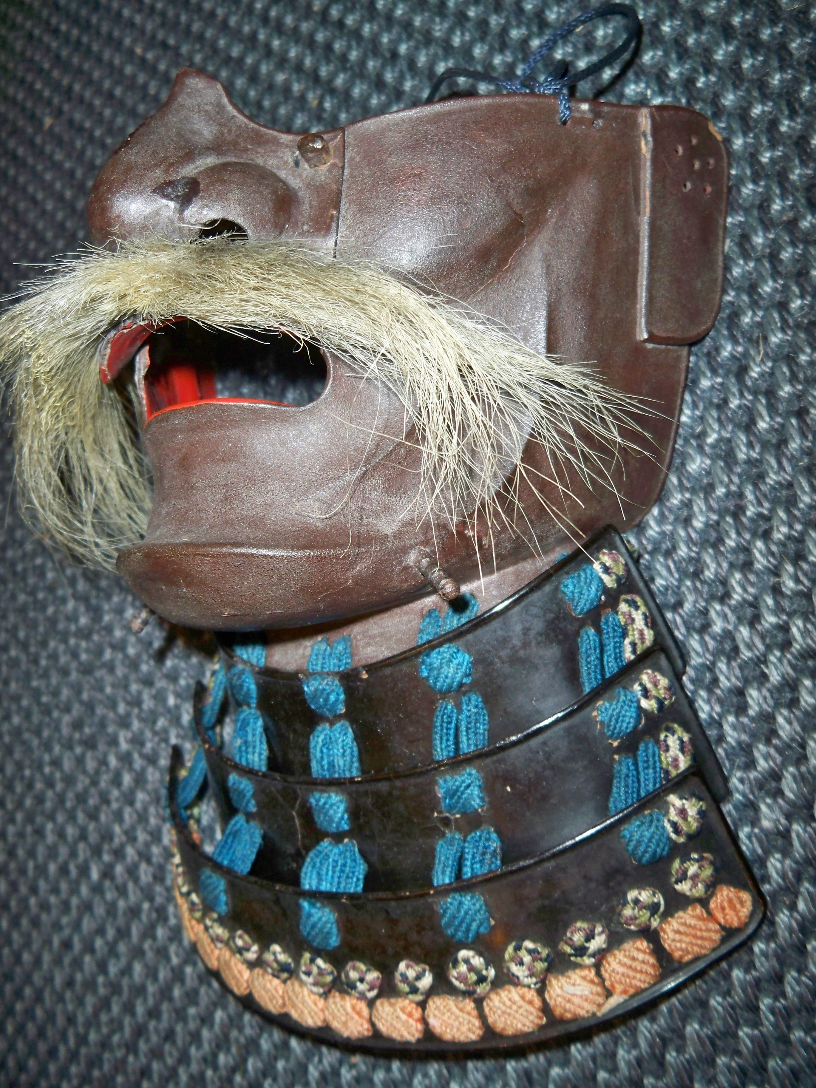 Antique Edo period Japanese (samurai) menpo. An Iron mask with an iron plate throat guard yodare-kake.